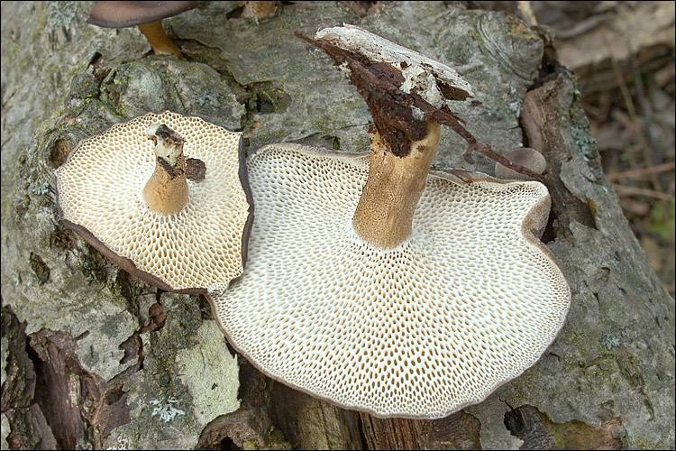 Polyporus brumalis (Pers.)Fr.